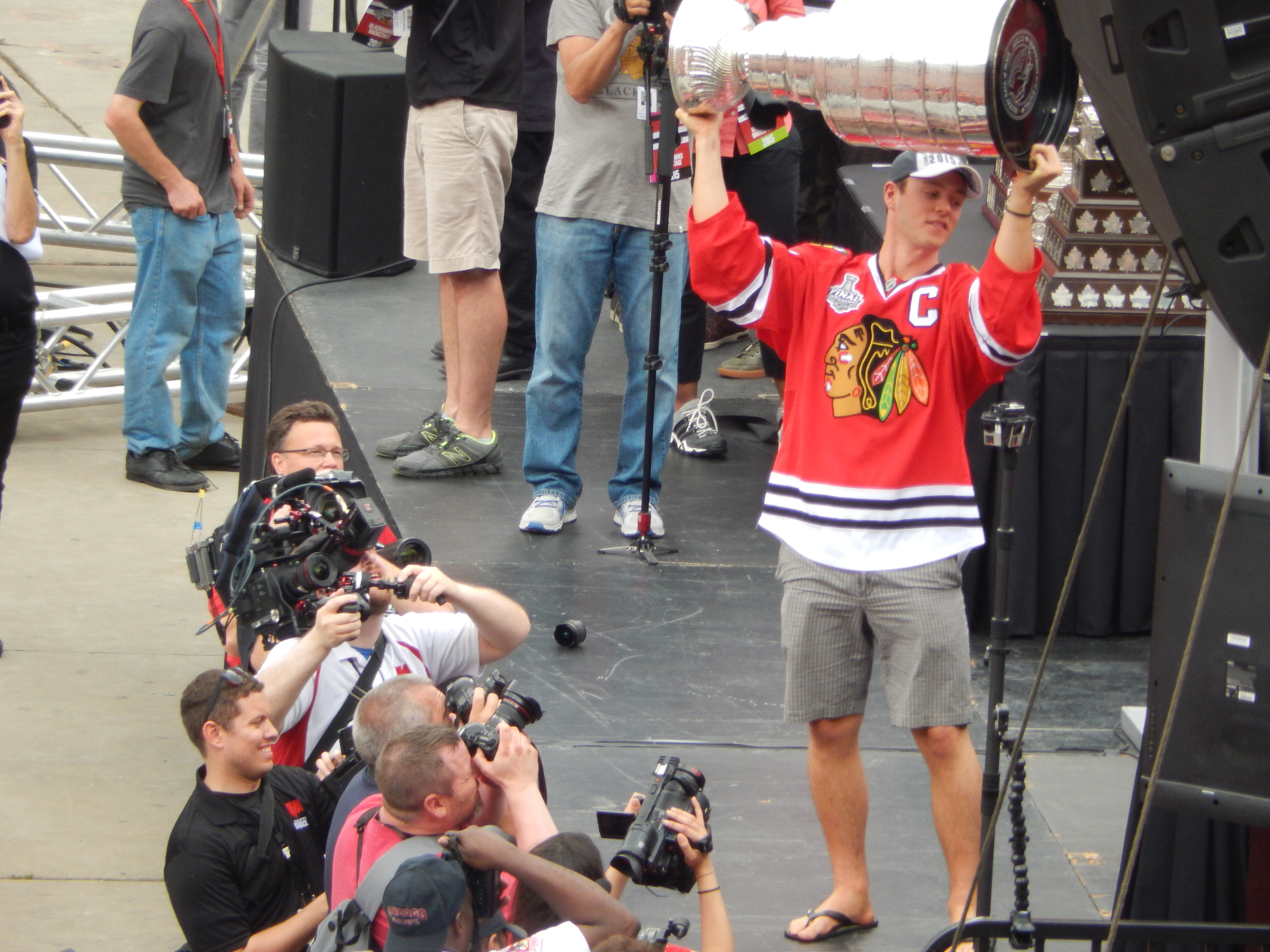 Jonathon Toews lifts the Stanley cup in 2015